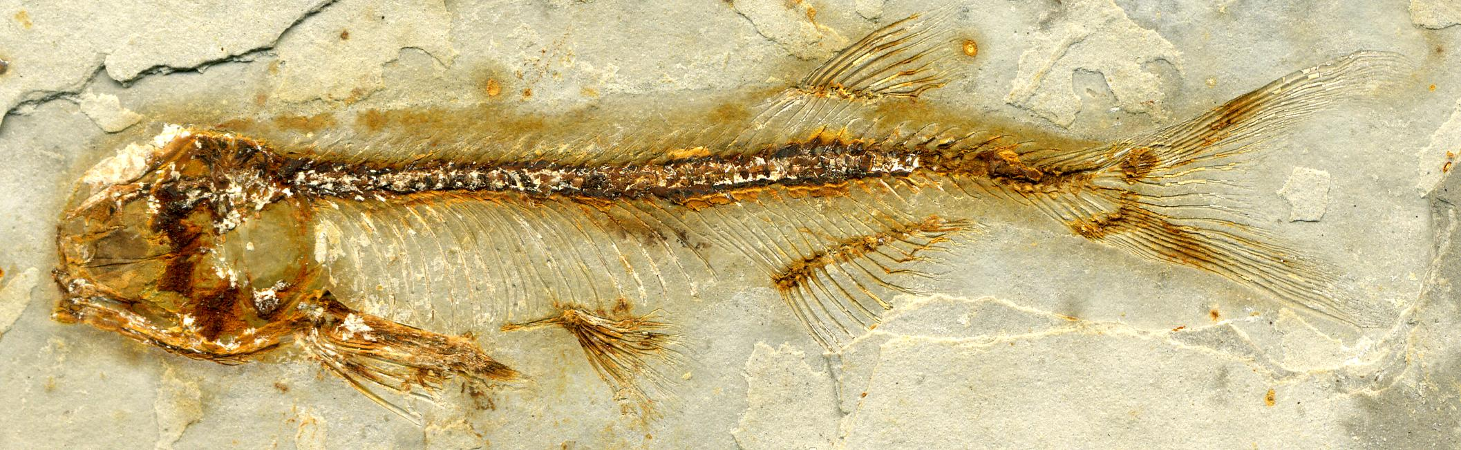 Lycoptera davidi (Sauvage, 1880) fossil fish (6.8 cm long) from the Cretaceous of China. The Jehol Group of western Liaoning Province, China has produced numerous remarkable fossils, particularly feathered dinosaurs. Shown here is one of the most abundant fossil forms in the Jehol Group - this is a Lycoptera davidi (Sauvage, 1880) fossil fish. It occurs in lacustrine (lake) shales of the Yixian Formation. Classification: Animalia, Chordata, Vertebrata, Osteichthyes, Actinopterygii, Neopterygii, Teleostei, Osteoglossiformes, Notopteroidei, Lycopteridae Stratigraphy: Yixian Formation, Jehol Group, near-lowermost Cretaceous. Locality: western Liaoning Province, northeastern China.